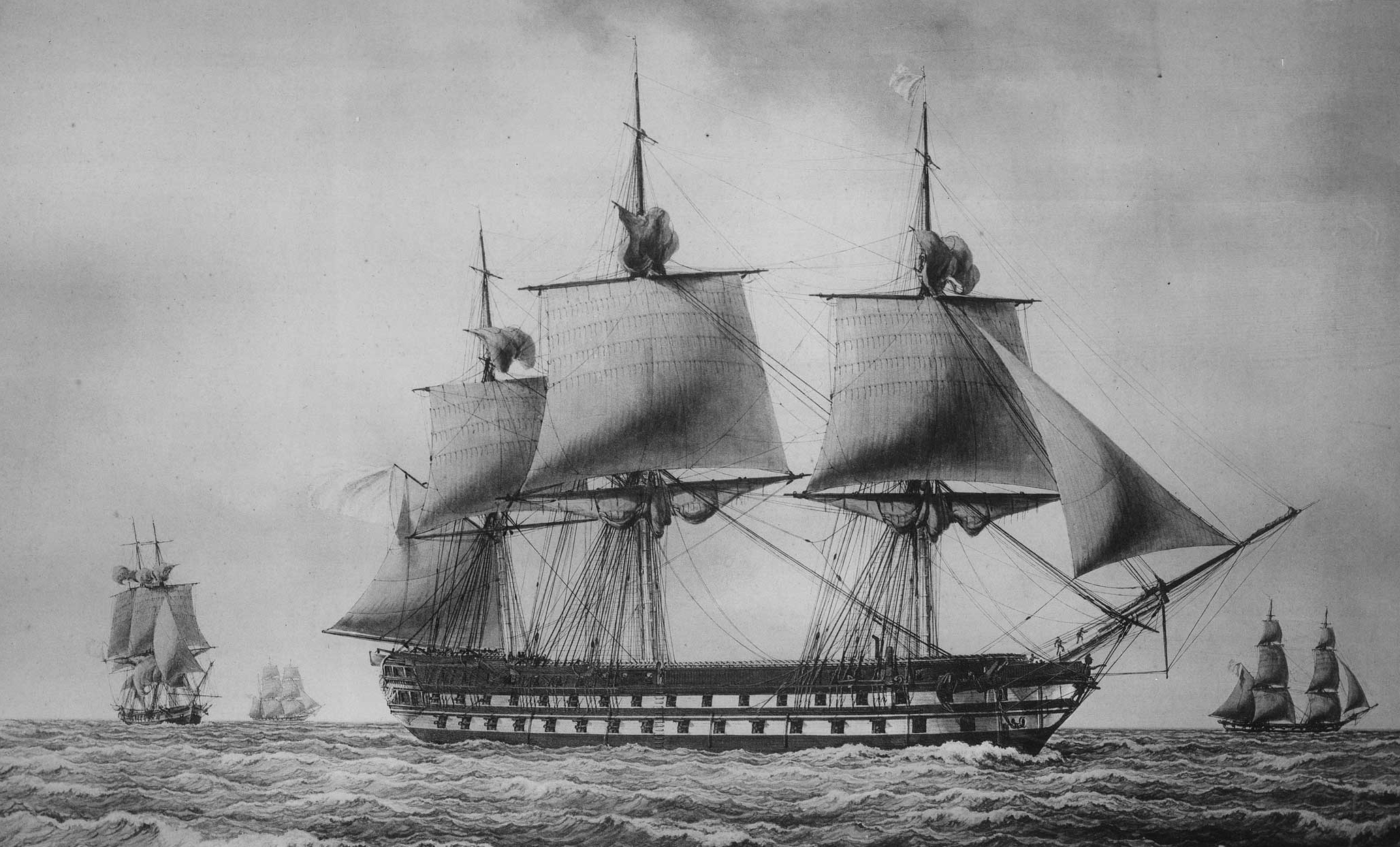 80-gun ship of ht eline Conquérant